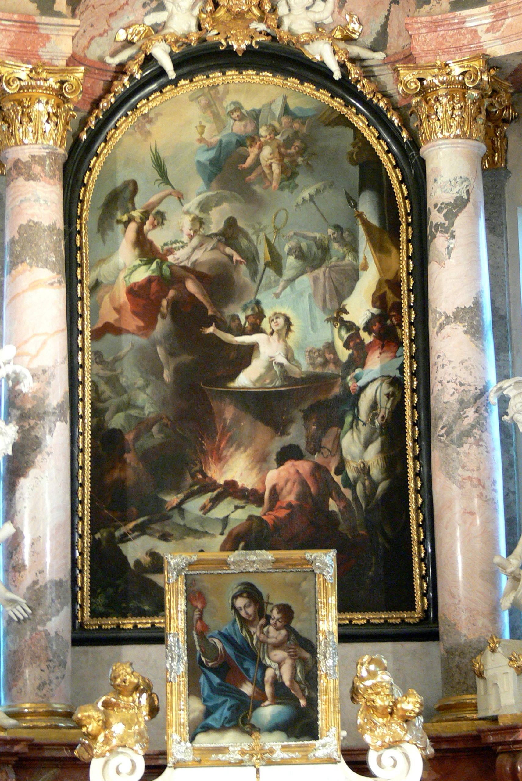 Saint Vitus parish church in Ober St.Veit ( Vienna / Austria ). High altar ( 1745 ) with altar painting "Martyrdom of Saint Vitus" by Franz Anton Tschungko.